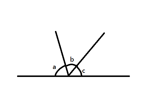 Adjacent angles on a straight line